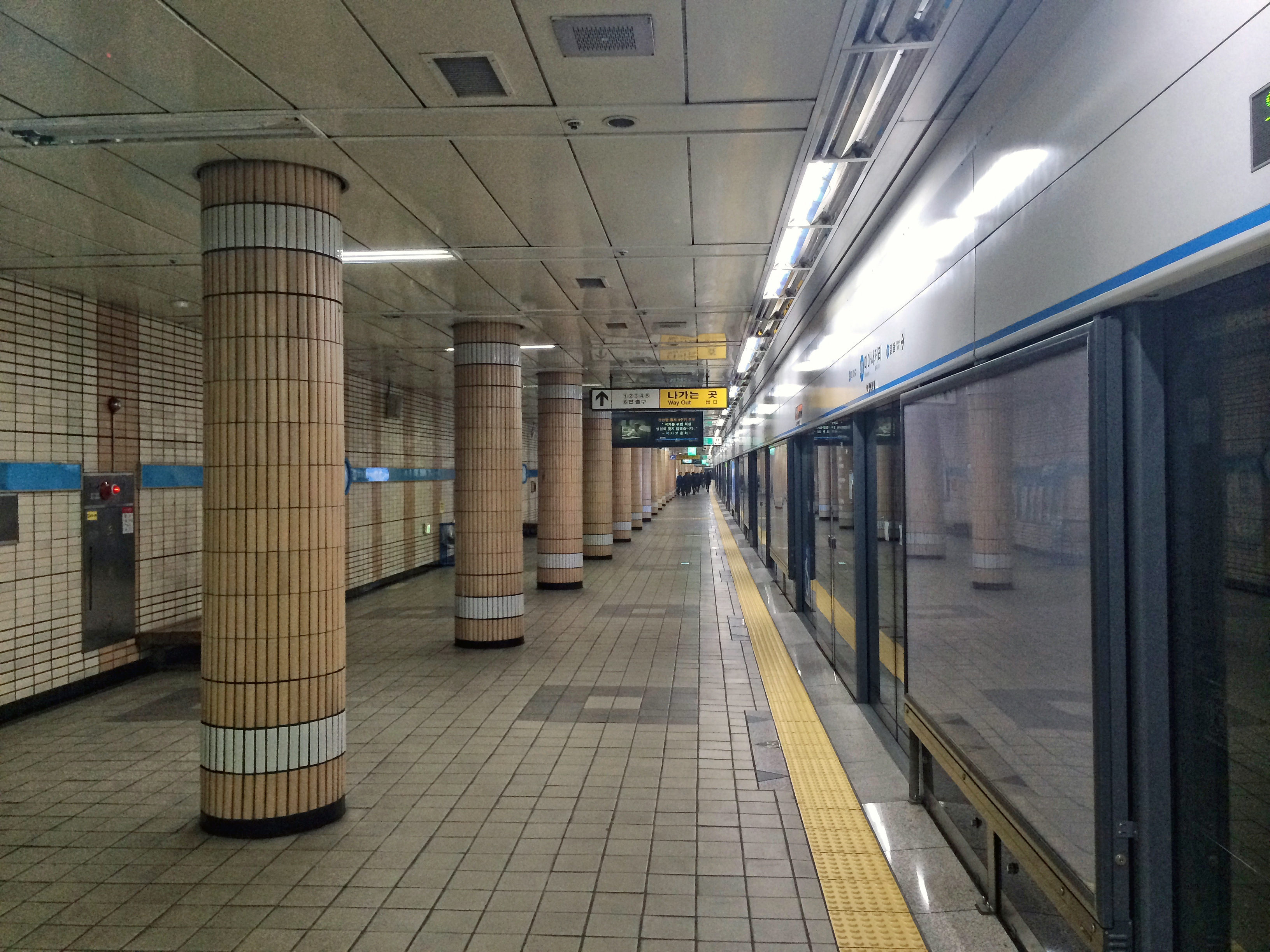 Platform of Miasageori Station